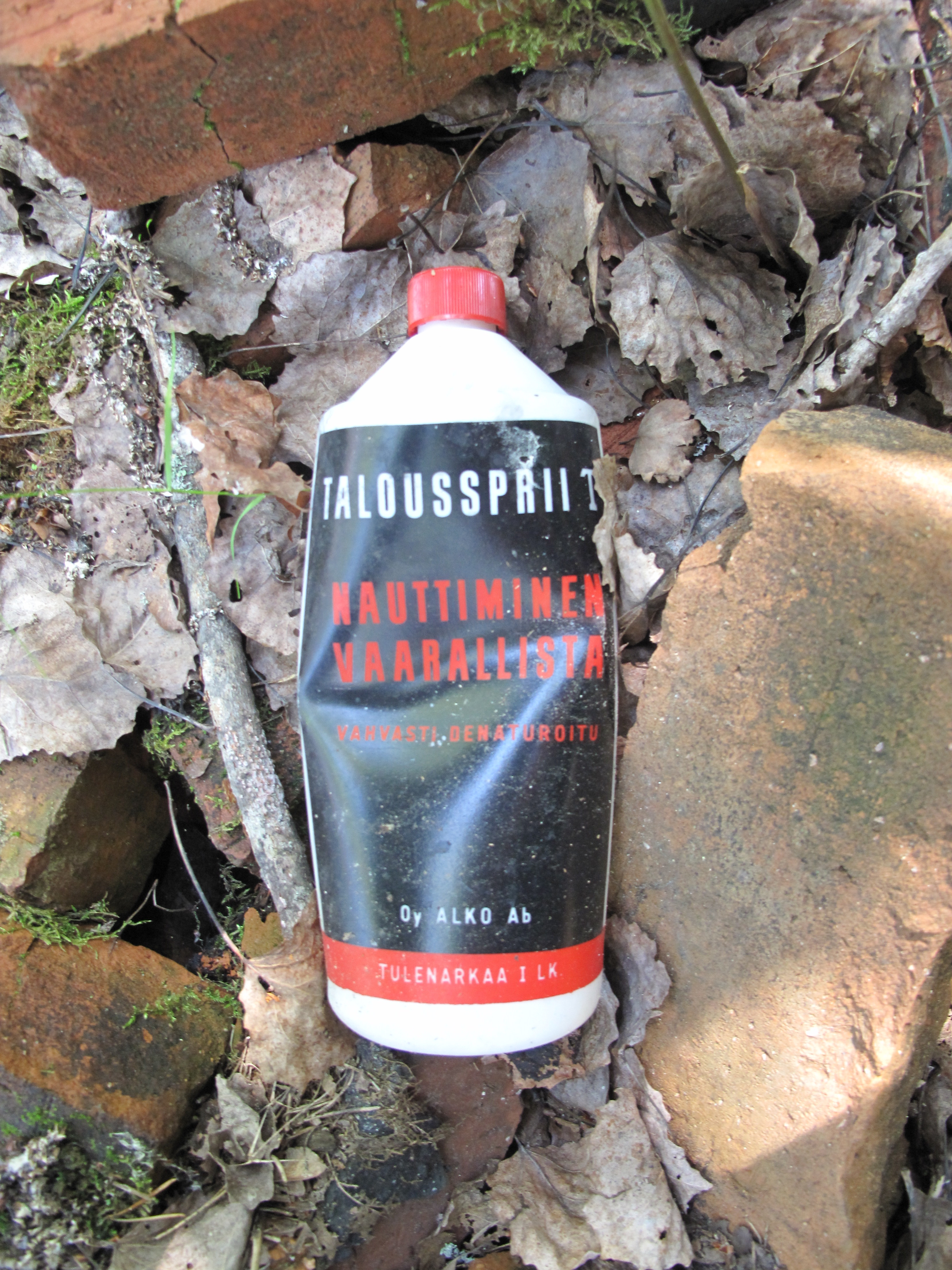 Plastic bottle of Finnish Taloussprii found on a site of abandoned villas in Kruunuvuori Helsinki Finland. Taloussprii was a trademark for denaturated alcohol in Finland. It became popular as surrogate alcohol and was withdrawn in 1972.